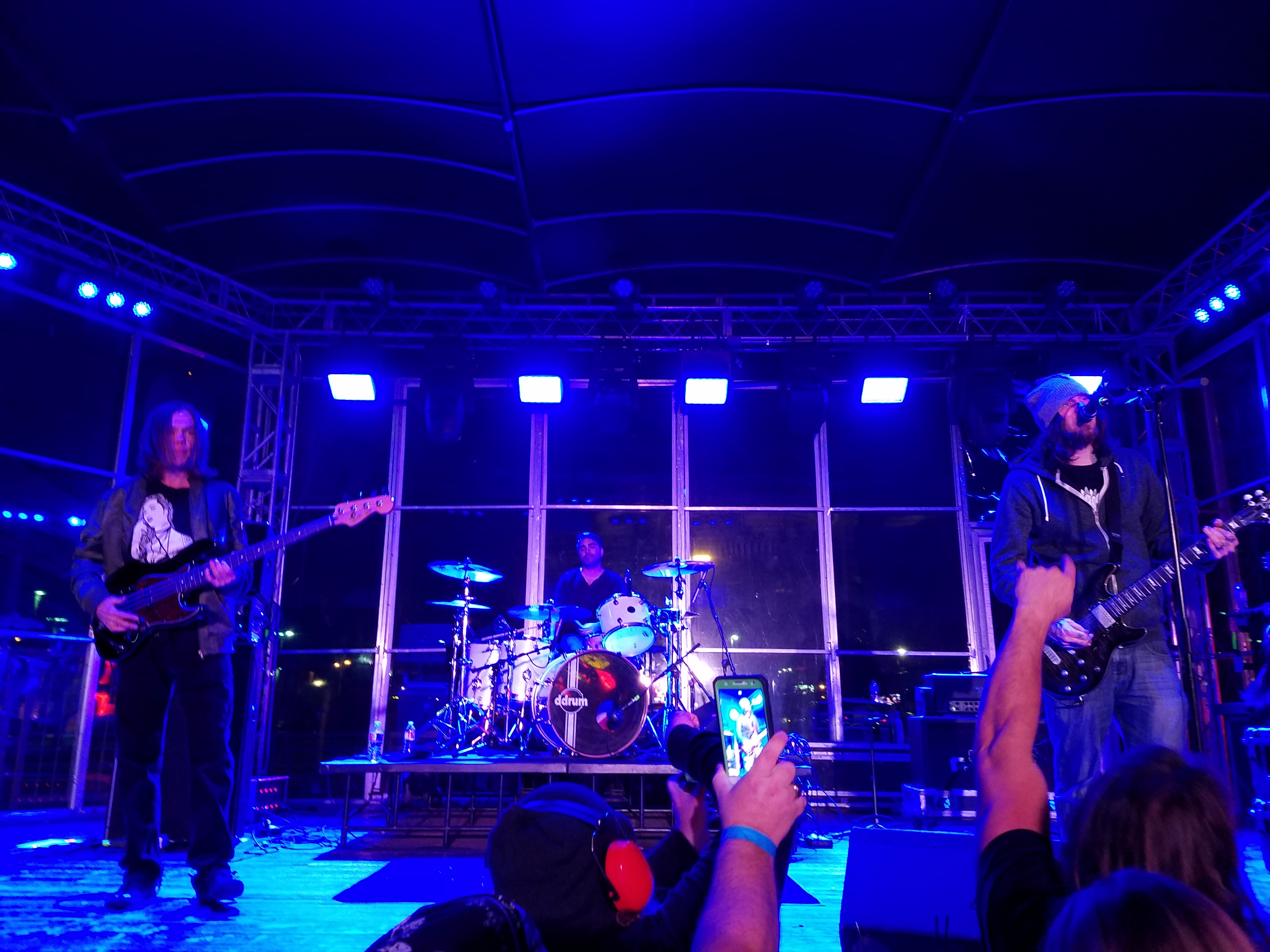 American rock band Smile Empty Soul performing in 2018